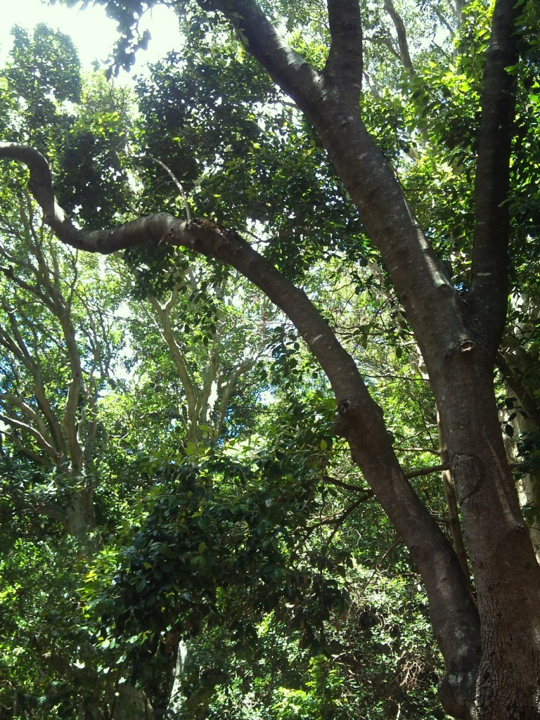 Large Assegai tree - Curtisia dentata - in indigenous afrotemperate forest. South Africa.